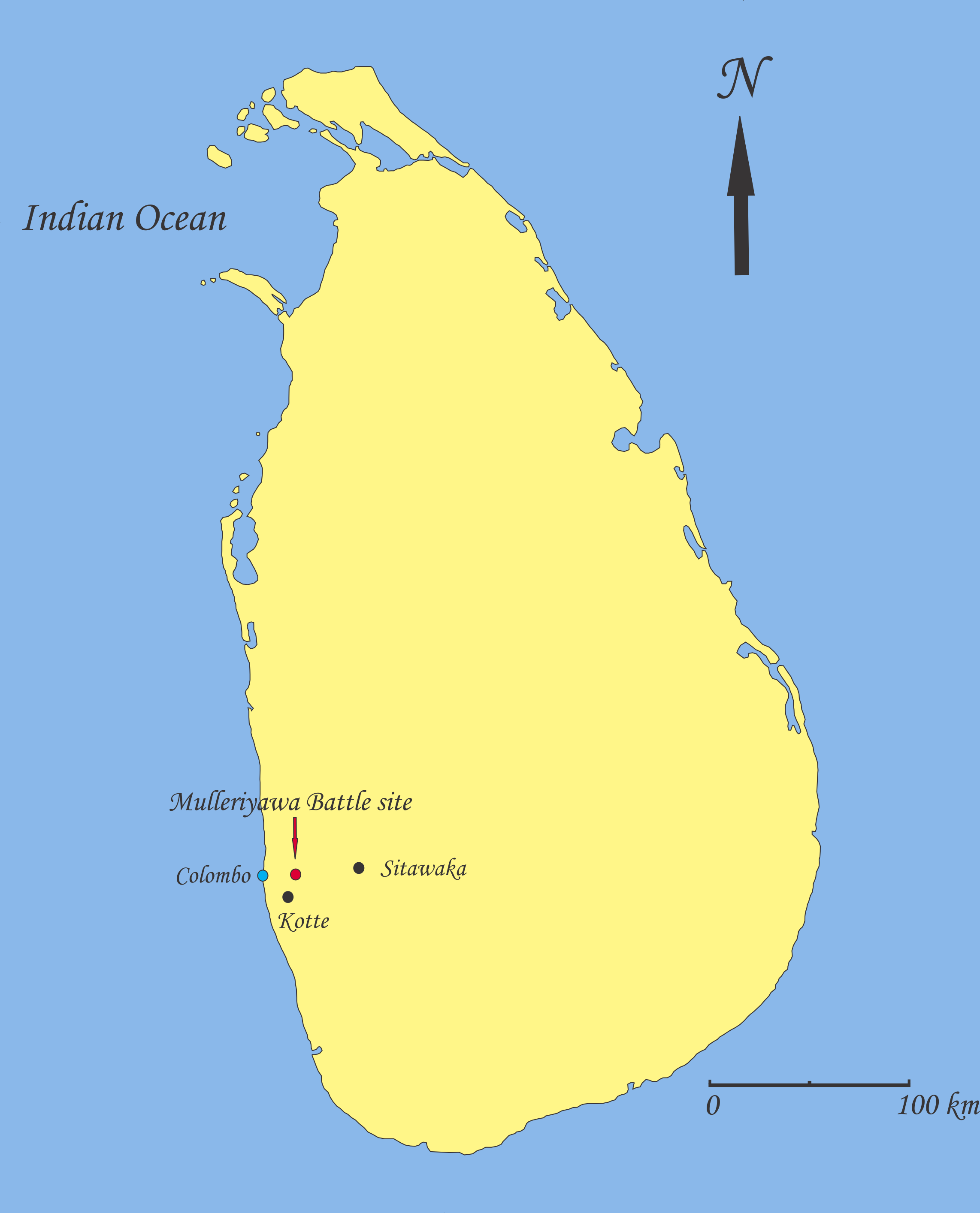 Locations of Colombo, Sitawaka, Kotte and Mulleriyawa battle site marked on the map of Sri Lanka.